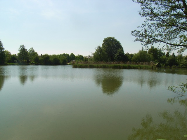 Bolton's Pit Bolton's Pit on the south side of Barton Road was first quarried for clay for local brickworks, approached from Grantchester Road during late Victorian era and then during 1900s coprolites were extracted for fertilizers and explosives until it was used as a rubbish tip during and after WW1 when it then filled with water from Binn Brook and became naturalised. Many of the houses around were built in the 1920s and 1930s by local Walter Boyton using the typical Cambridge yellowish brick.